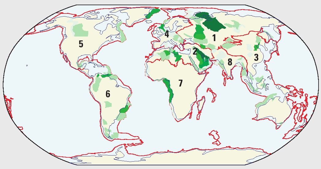 Oil endowment (cumulative production plus remaining reserves and undiscovered resources) for provinces assessed. Darker green indicates more resources. United States areas are not included. Original Caption: Figure 1. Oil endowment (cumulative production plus remaining reserves and undiscovered resources) for provinces assessed. Darker green indicates more resources. Areas: 1: Former Soviet Union 2: Middle East and North Africa 3: Asia Pacific 4: Europe 5: North America 6: Central and South America 7: Sub-Saharan Africa and Antarctica 8: South Asia